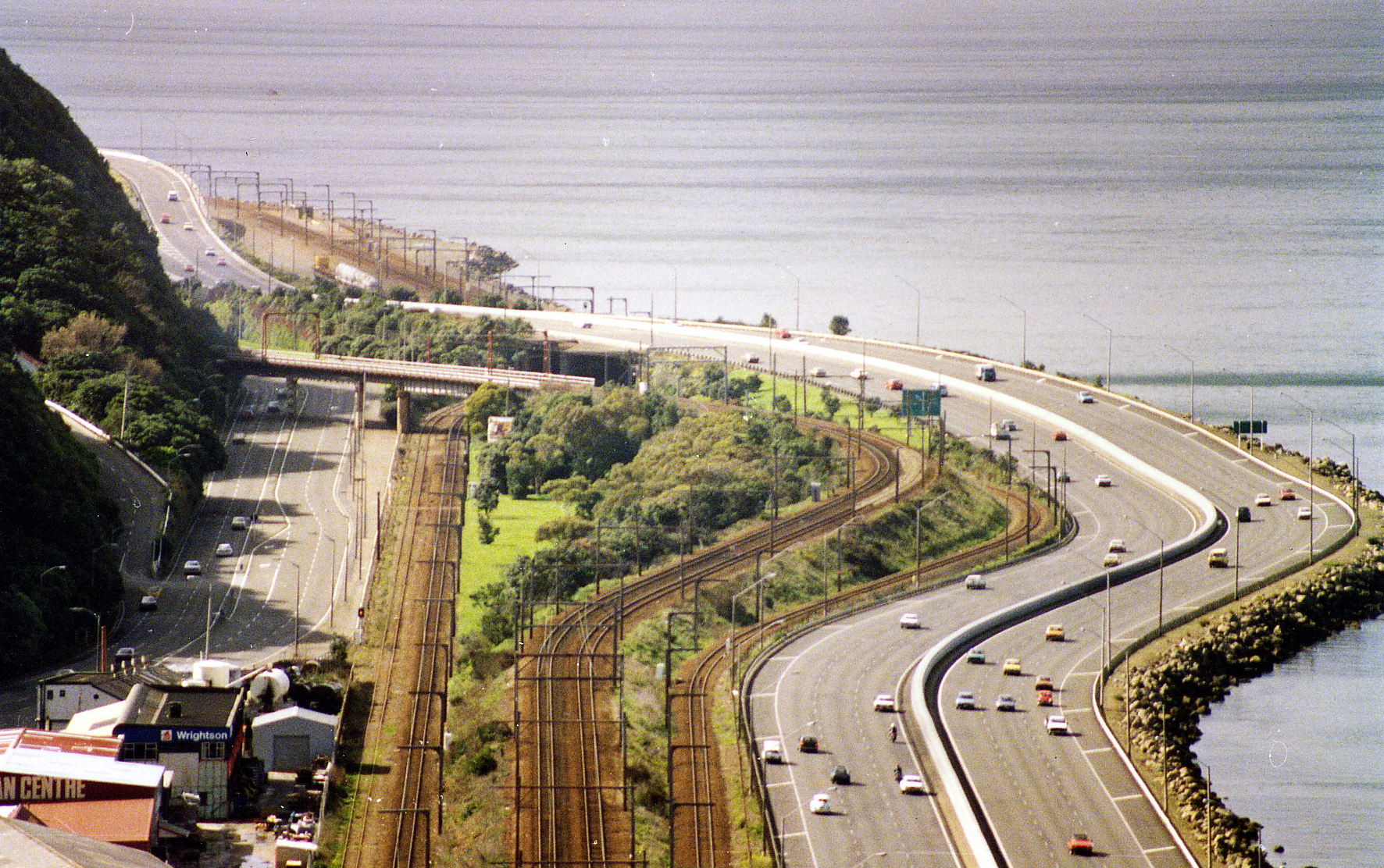 On the right State Highway 1 (SH1) Wellington motorway, and in the centre the North Island Main Trunk (NIMT) rail lines heading for Porirua and the Wairarapa Line rail lines heading for the Hutt Valley : from left Wairarapa up, NIMT up, NIMT down, Wairarapa down. Wellington, New Zealand.